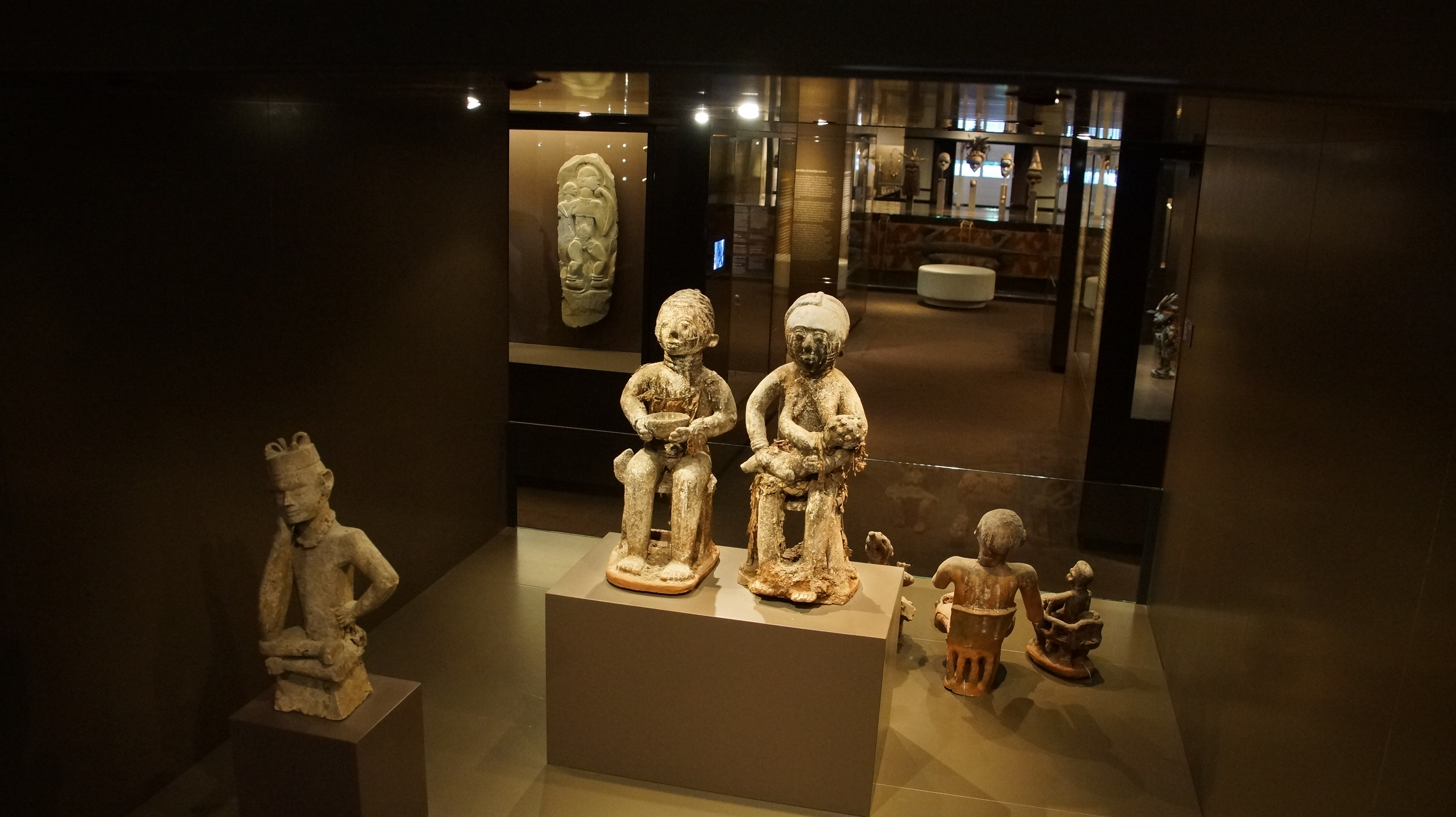 Africa Museum Berg and Dal